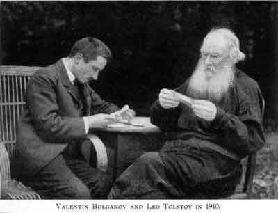 Tolstoj and his private secretary Valentin Bulgakov, 1910